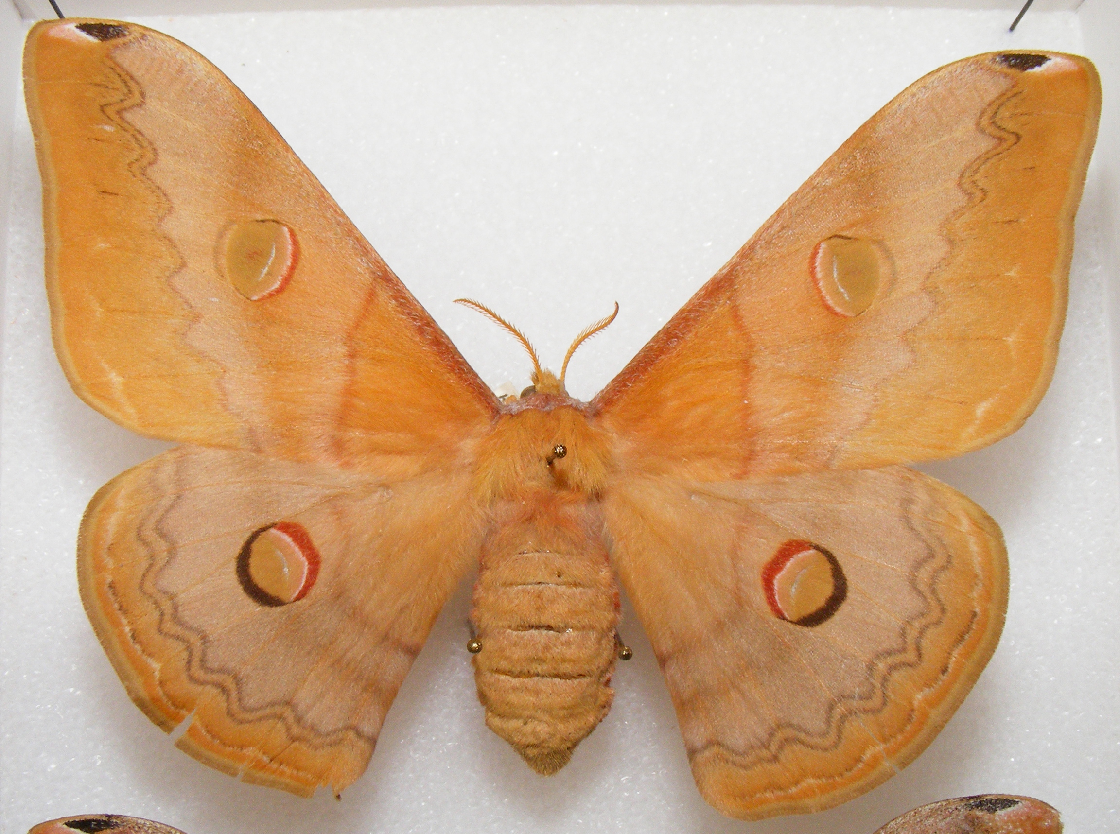 Caligula cachara adult female from the Texas A&M University Insect Collection